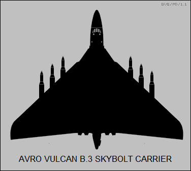 Plan-view silhouette of the Avro Vulcan B.3 Skybolt carrier project